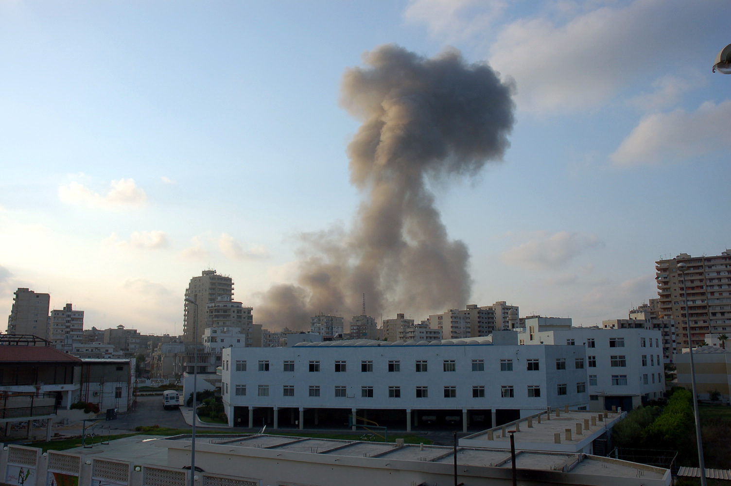 Dust rises after the impact of two 500lb (230kg) laser guided bombs dropped during an IAF airstrike on Tyre, Lebanon.